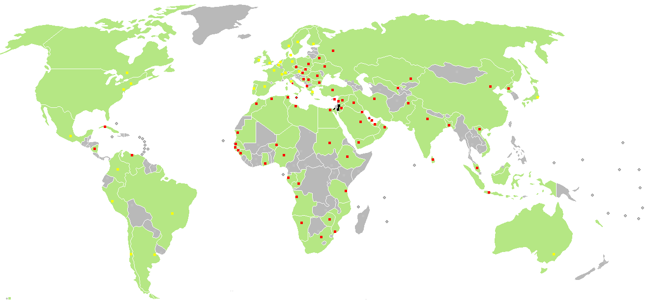 Palestinian diplomatic missions and other representative offices